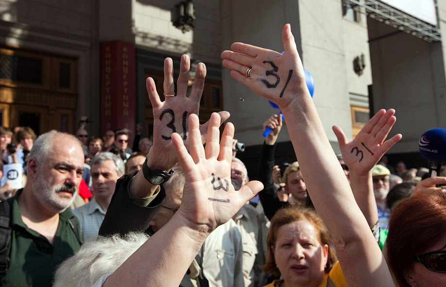 Protest action in defense of Article 31 (Freedom of assembly) of the Russian Constitution. Moscow, May 31, 2010